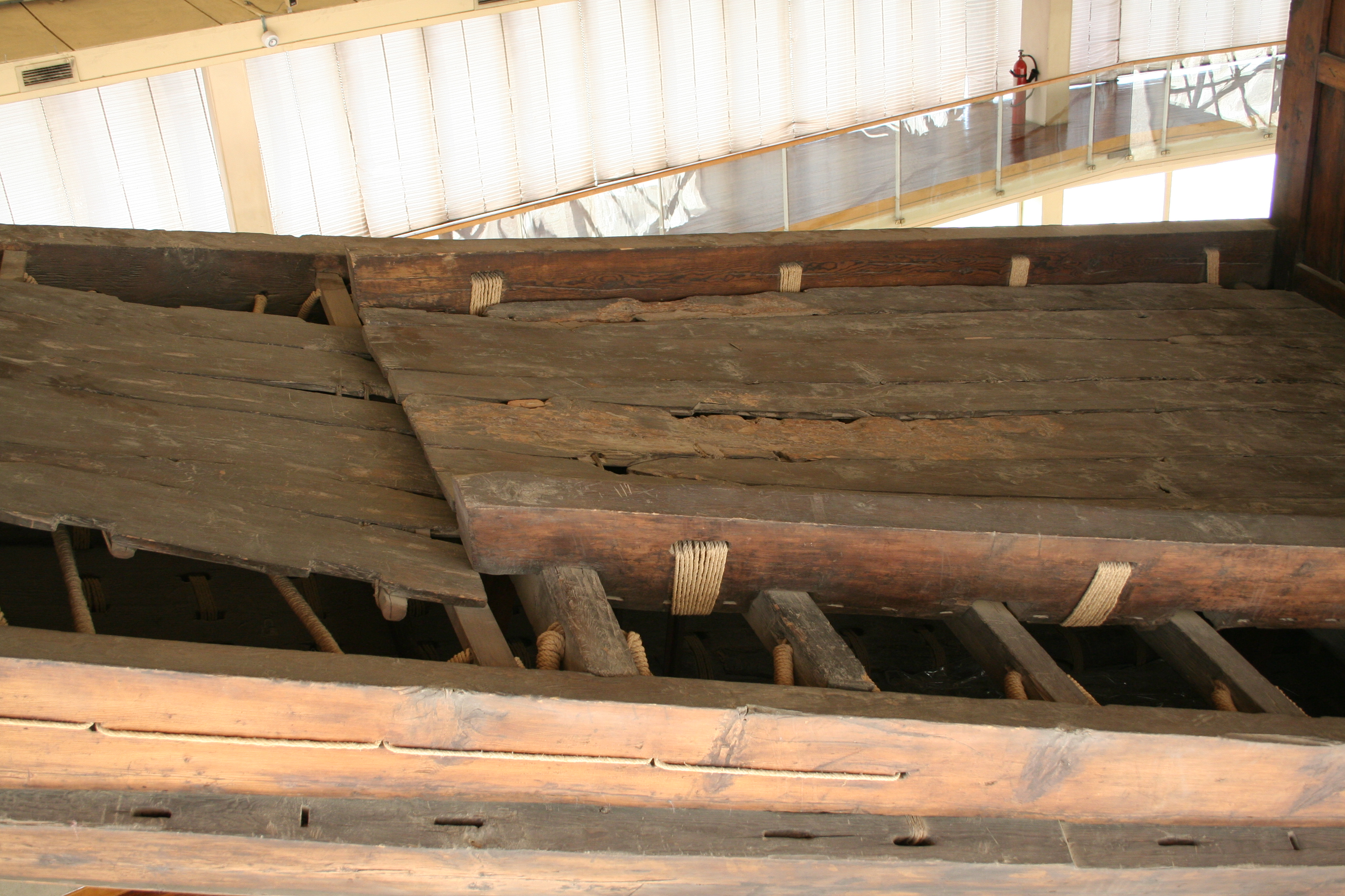 The Boat of Khufu